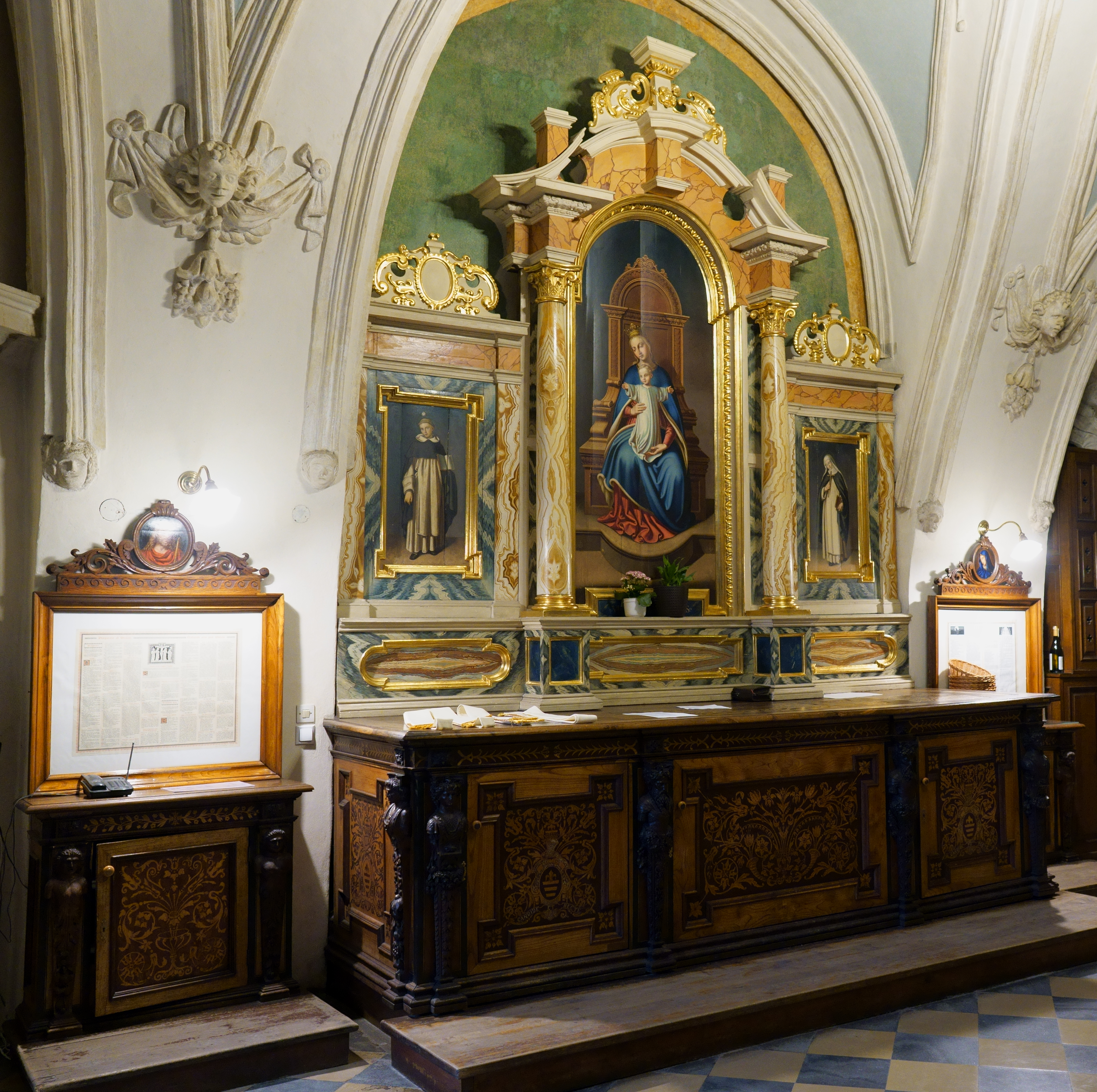 The altar by Walenty Wisz in the sacristy of the Dominican church in Krakow